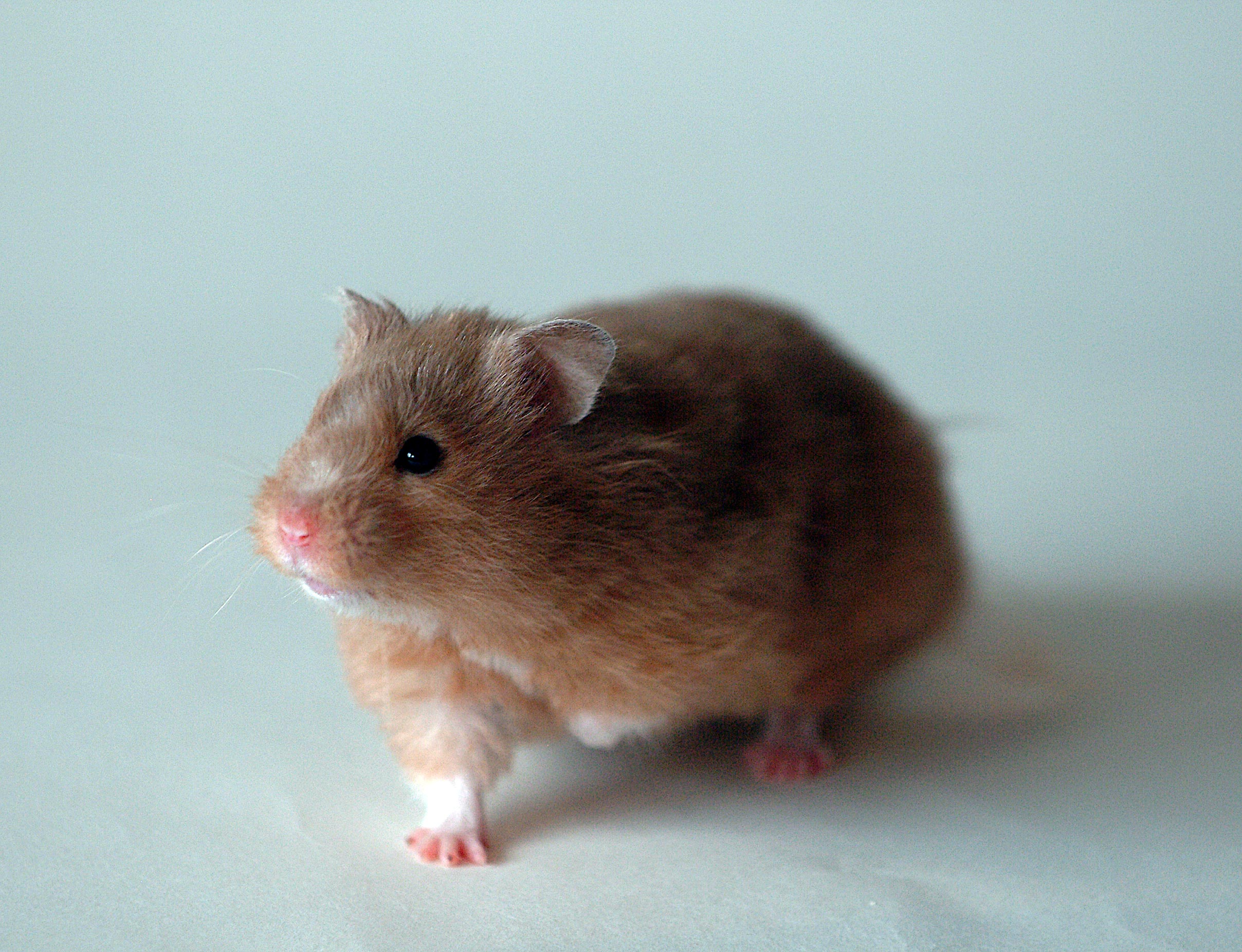 This photo shows a Golden Hamster (she is a rescued hamster called Vince), she is a great pet. Photo was taken 19th April 2006 when Vince was approx 1 year old. This photos is my own work. Adamjennison111 21:51, 31 August 2006 (UTC)